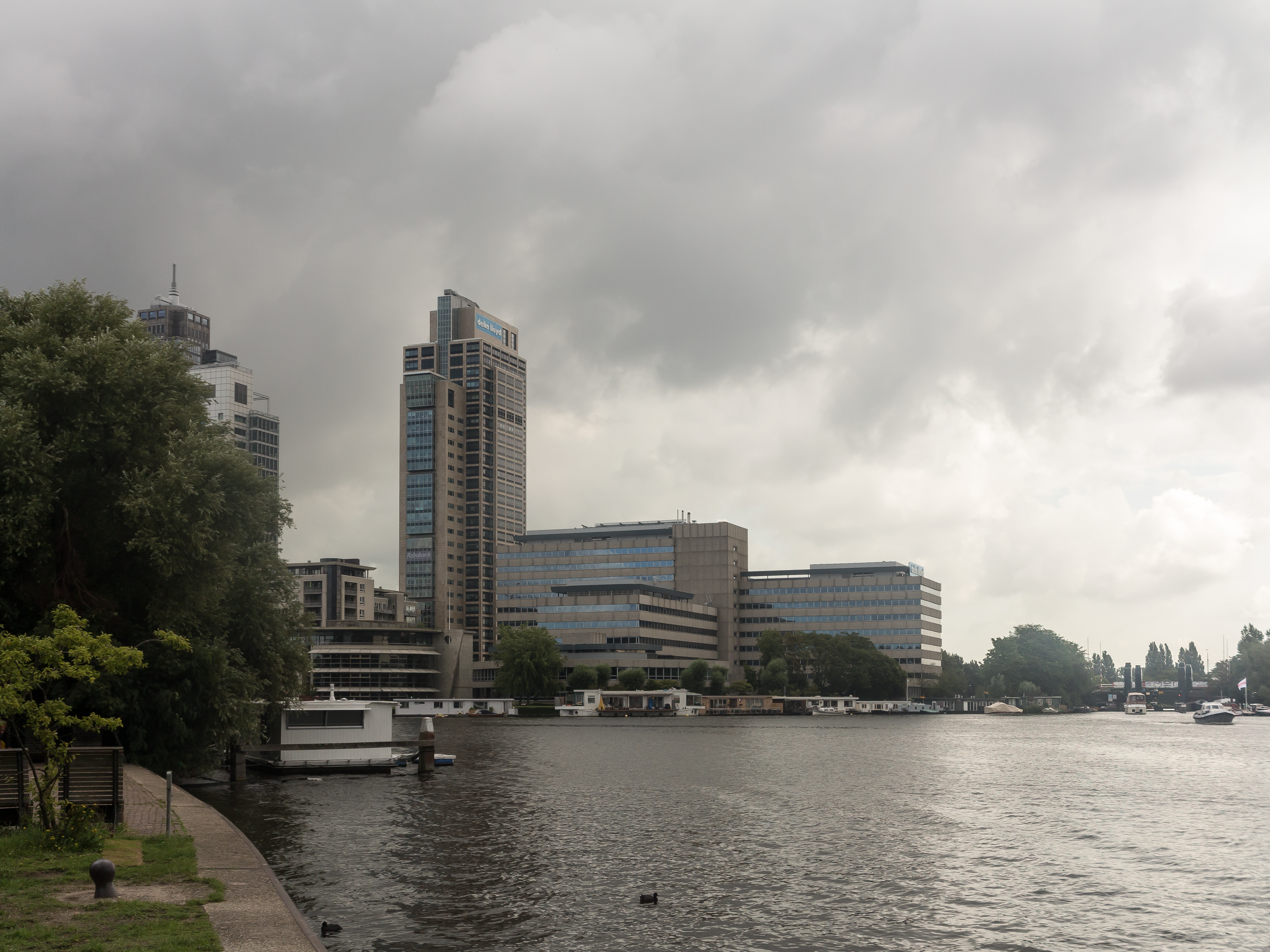 Amsterdam-Amstel, office buiulding Delta Lloyd Vastgoed